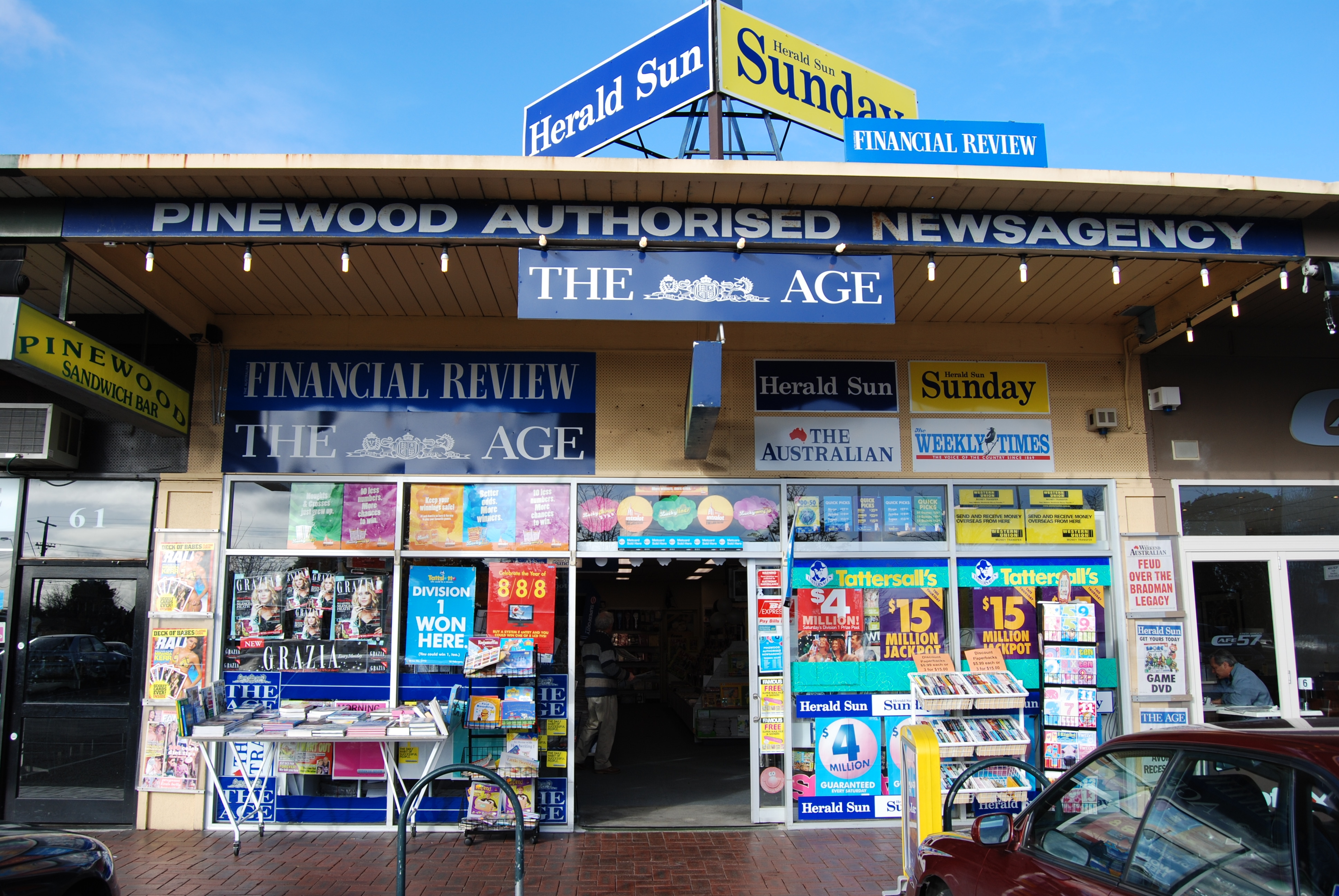 I liked the shot